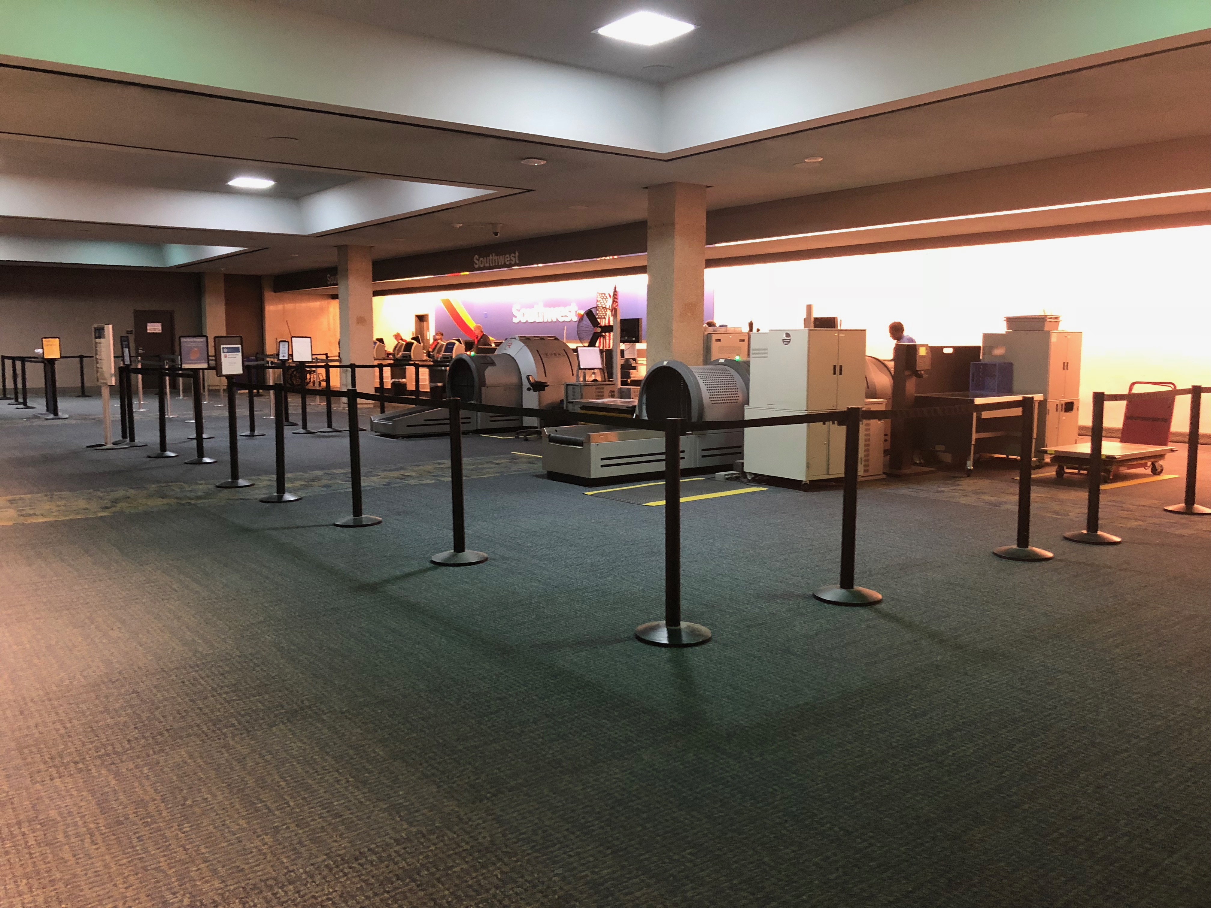 ORF!!